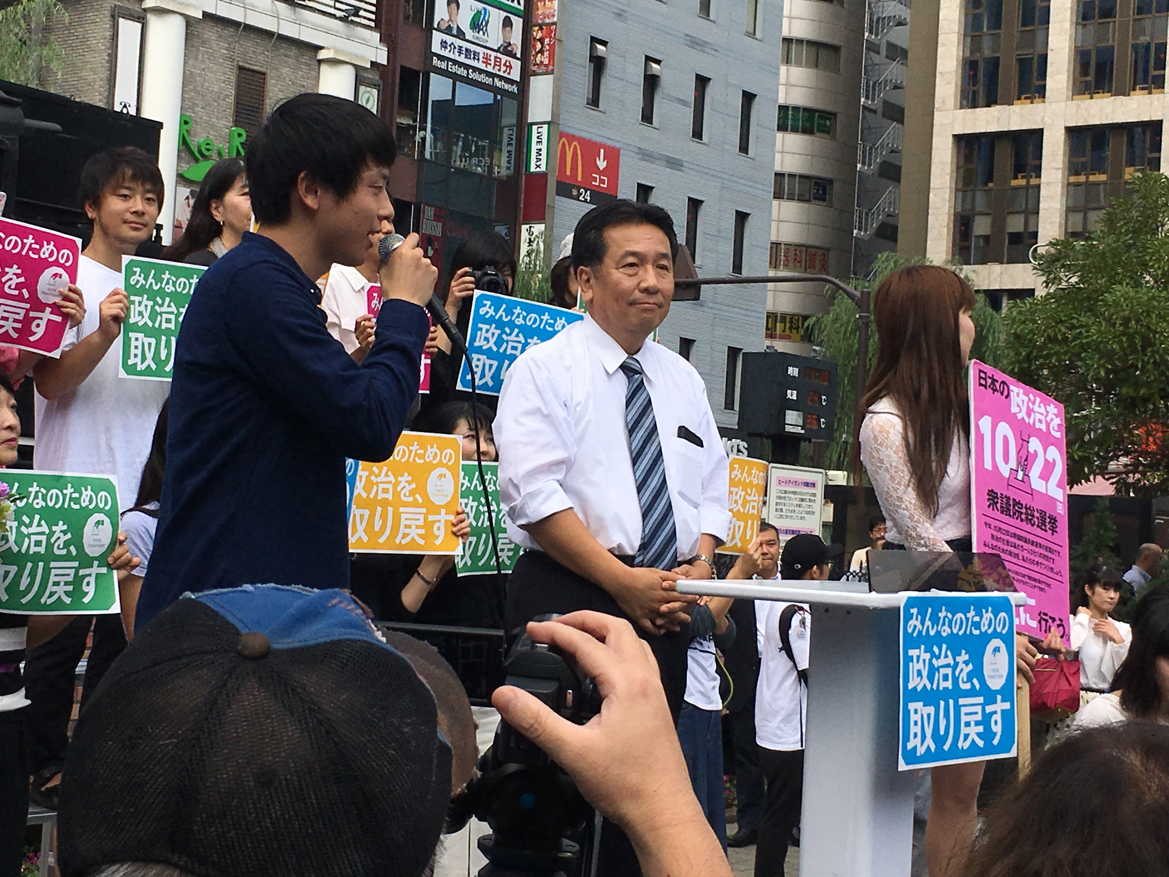 Yukio Edano at SL Square of Shimbashi Station, Tokyo in October 8, 2017. The left is Nobukazu Honma, and the right is Yukino Baba.